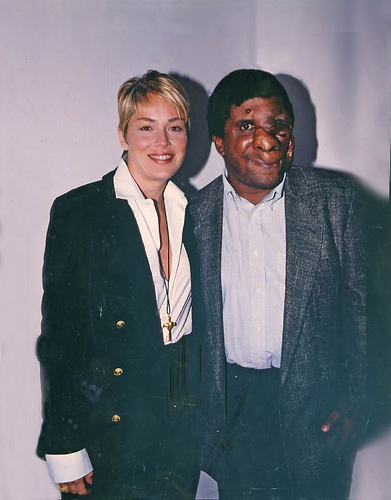 Sharon Stone and Reggie Bibbs.